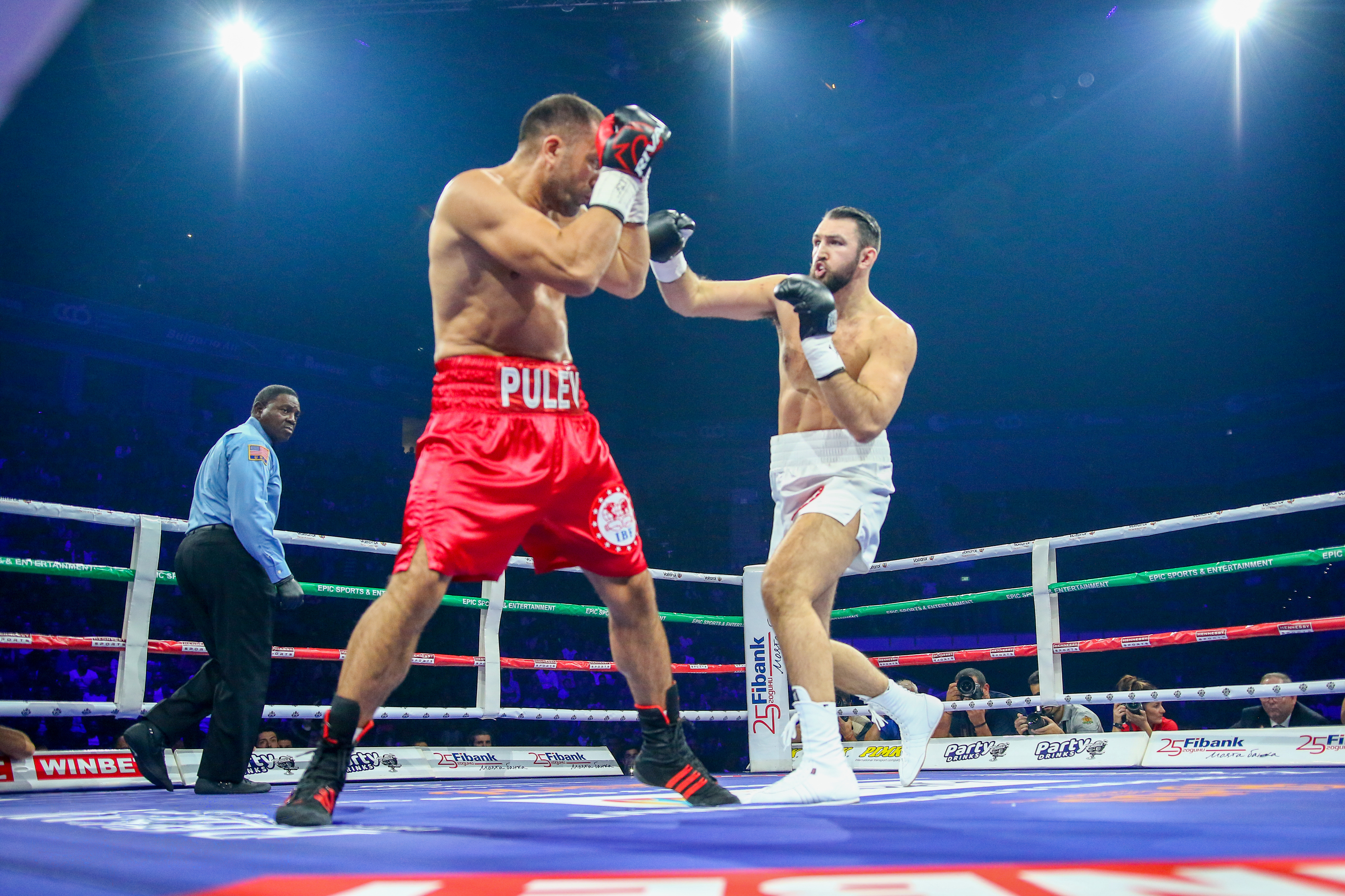 Moment of the heavyweight boxing fight for IBF professionals Kubrat Pulev - Hui Fury, 27 October 2018, Arena Armeec Hall, Sofia, Bulgaria.